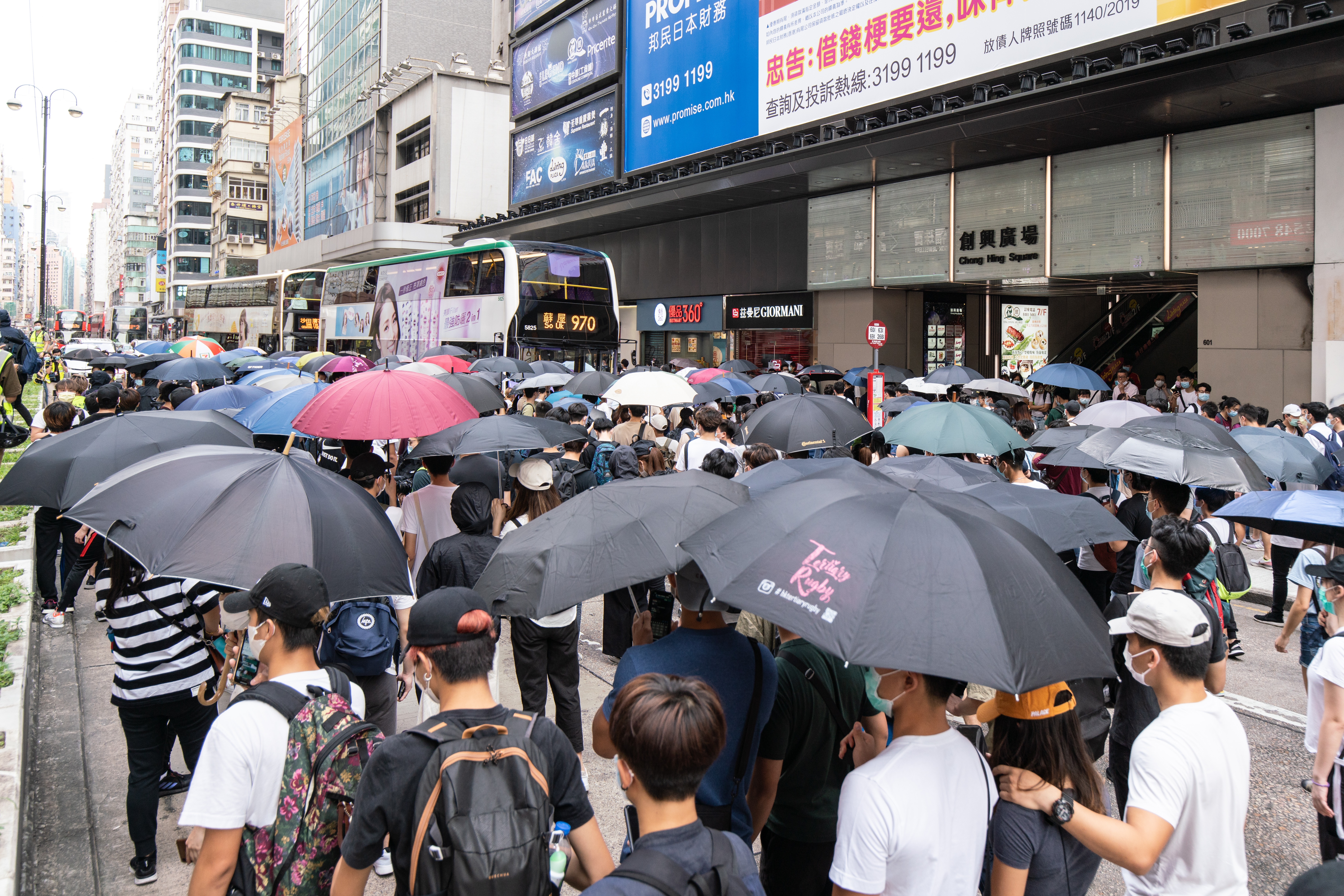 By BC for Studio Incendo